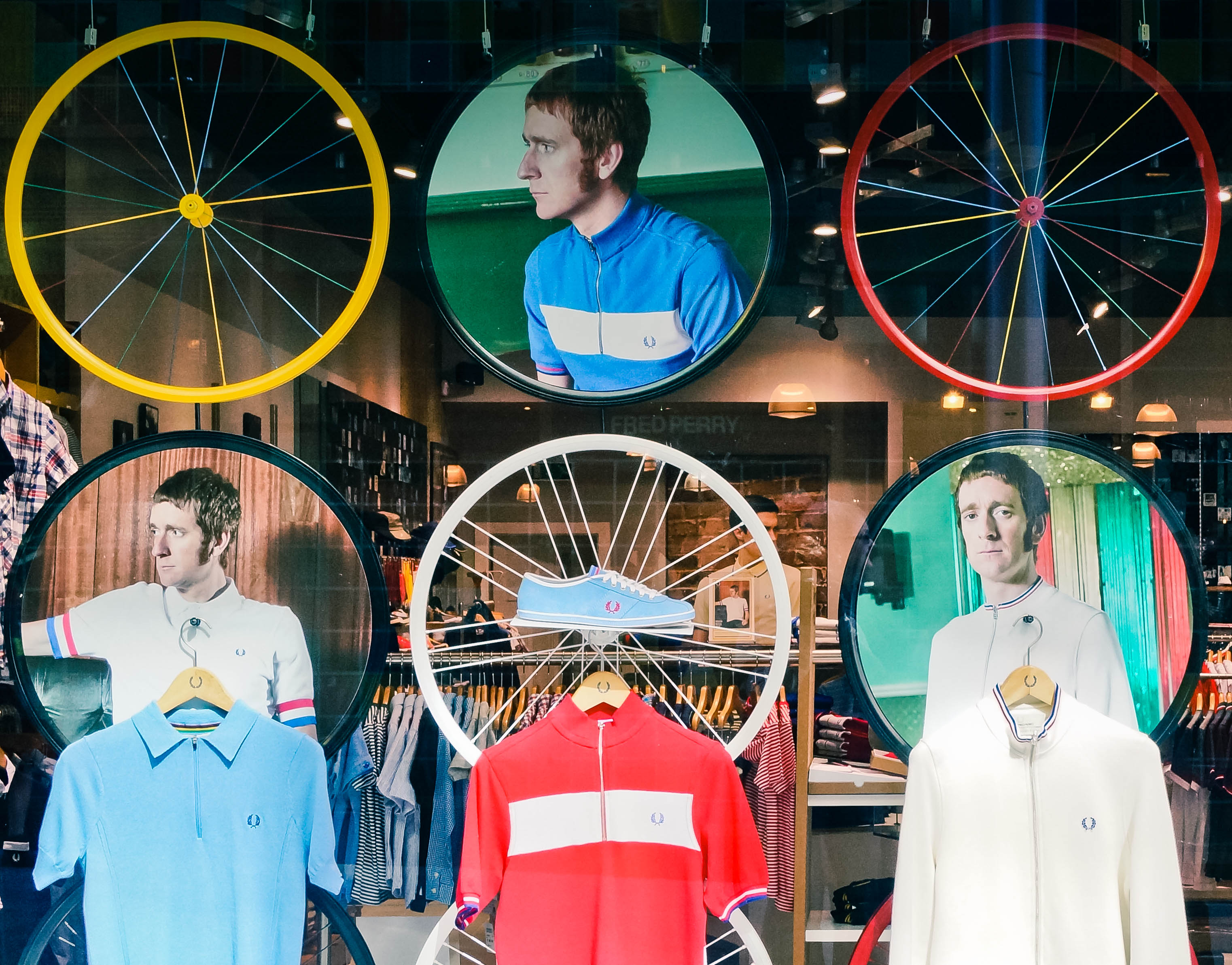 A very clever and colourful shop window in Liverpool, featuring one of my favourite sportsmen :)